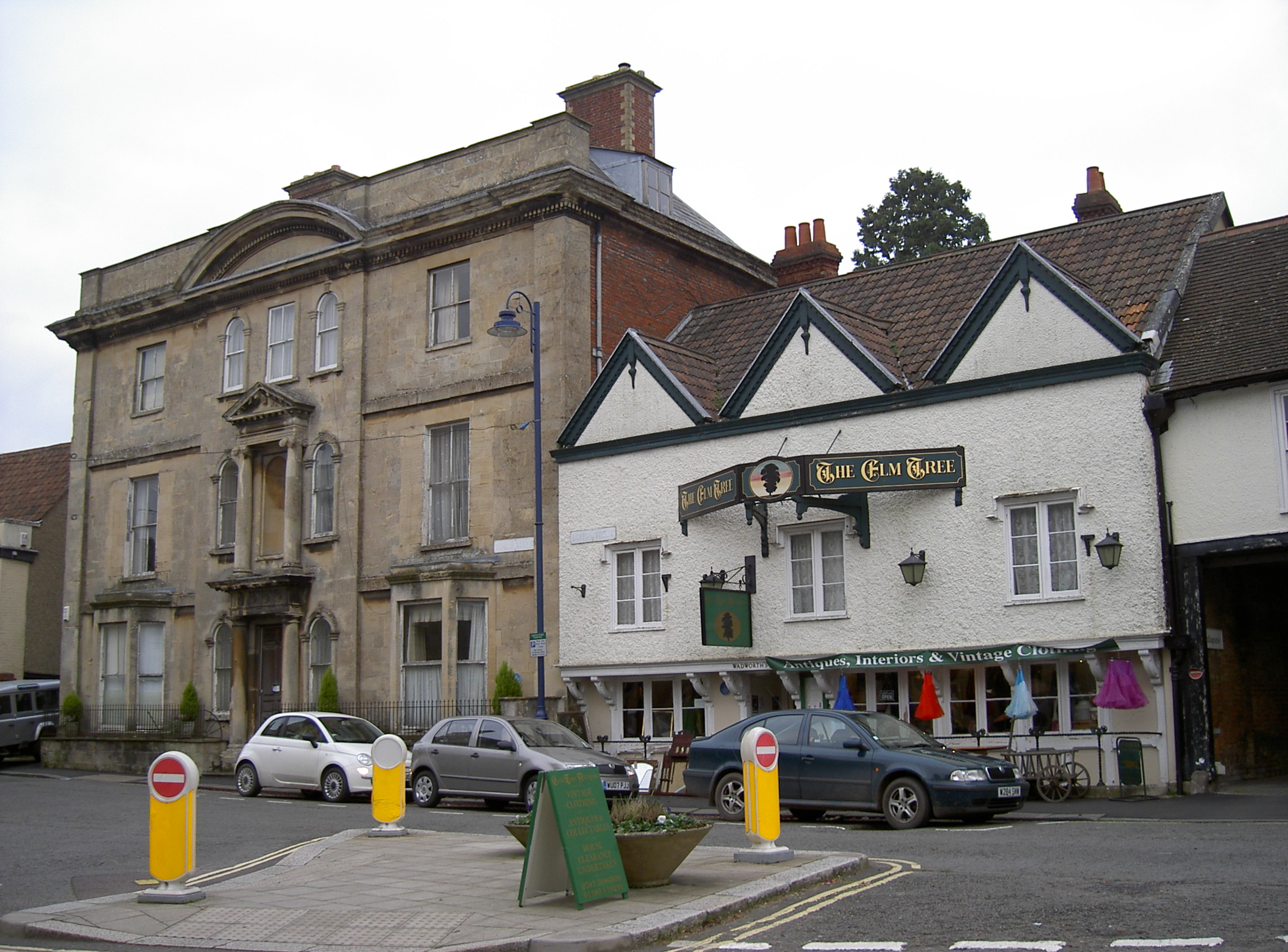 The Elm Tree and Greystone House